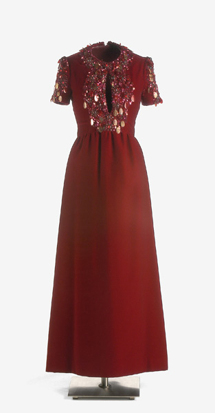 Deep red velvet evening dress by Spanish designers Herrera y Ollero.